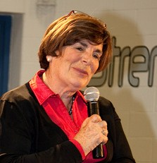 Anita Neville, Member of Canadian Parliament for Winnipeg South Centre